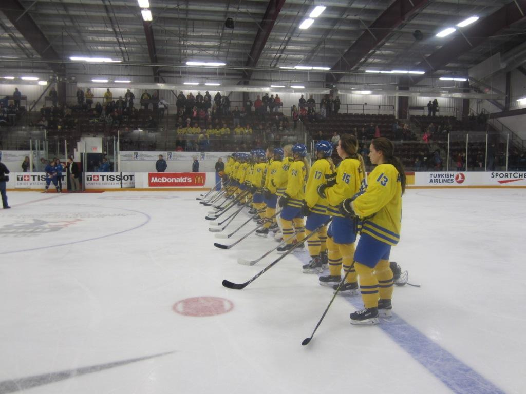 Sweden vs. France at the Seymour-Hannah Centre, St. Catharines